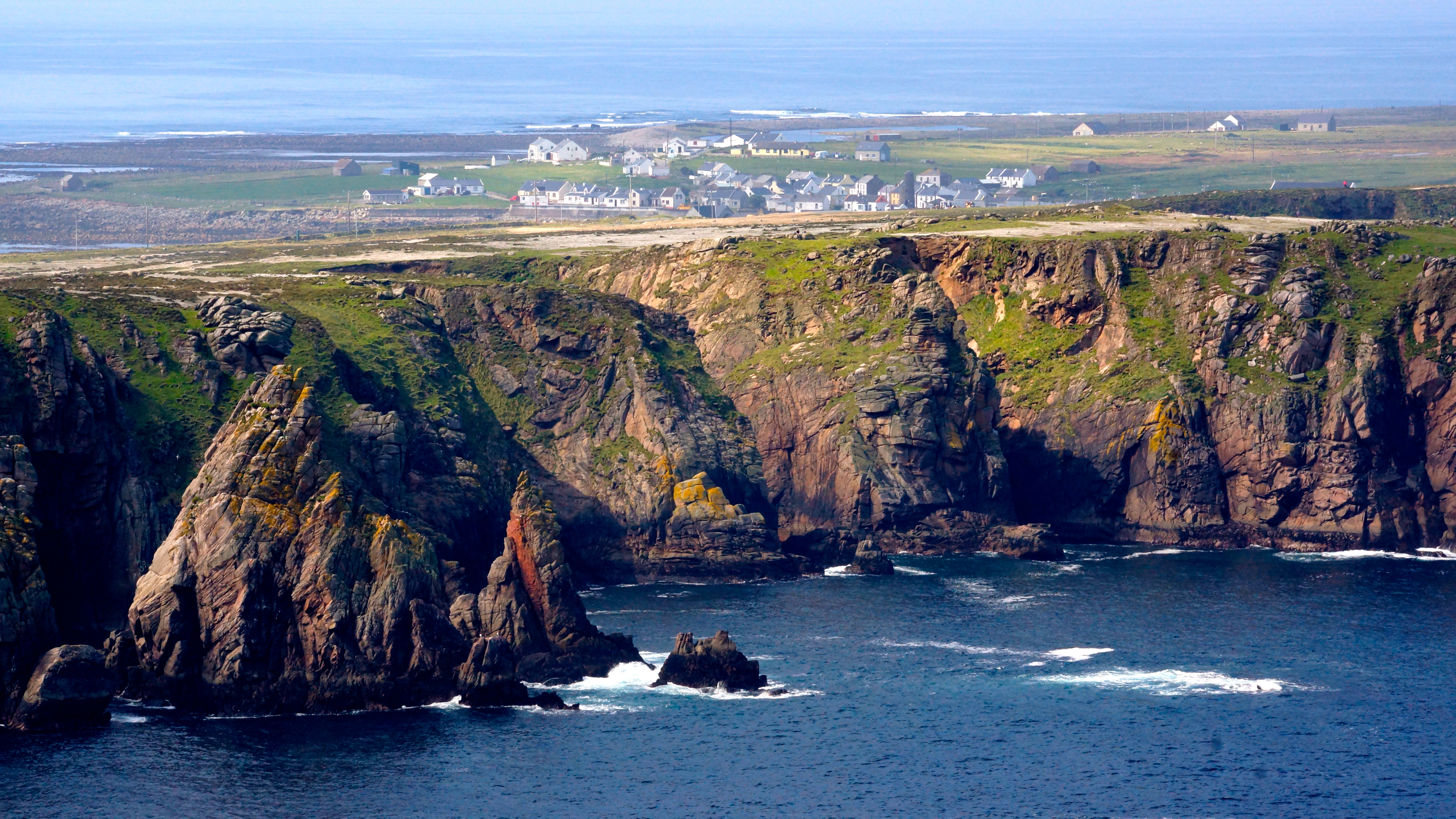 Tory Island Early Medieval Ecclesiastical Site